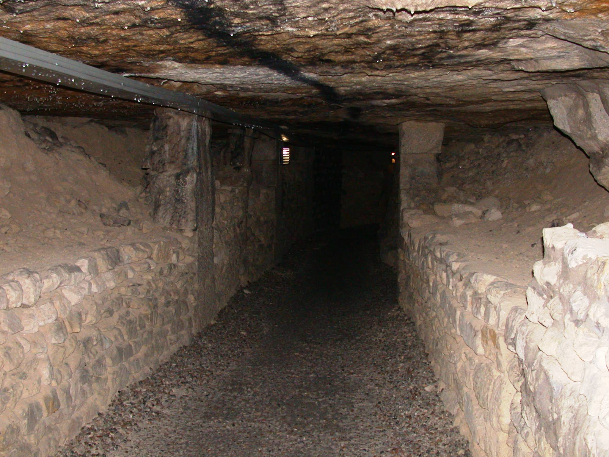 The catacombs, Paris, France. Photo by (WT-shared) Riggwelter, August 2006. Was in category Paris (France) on wikivoyage